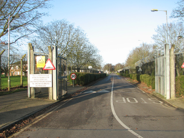 Robertson Barracks, Norfolk